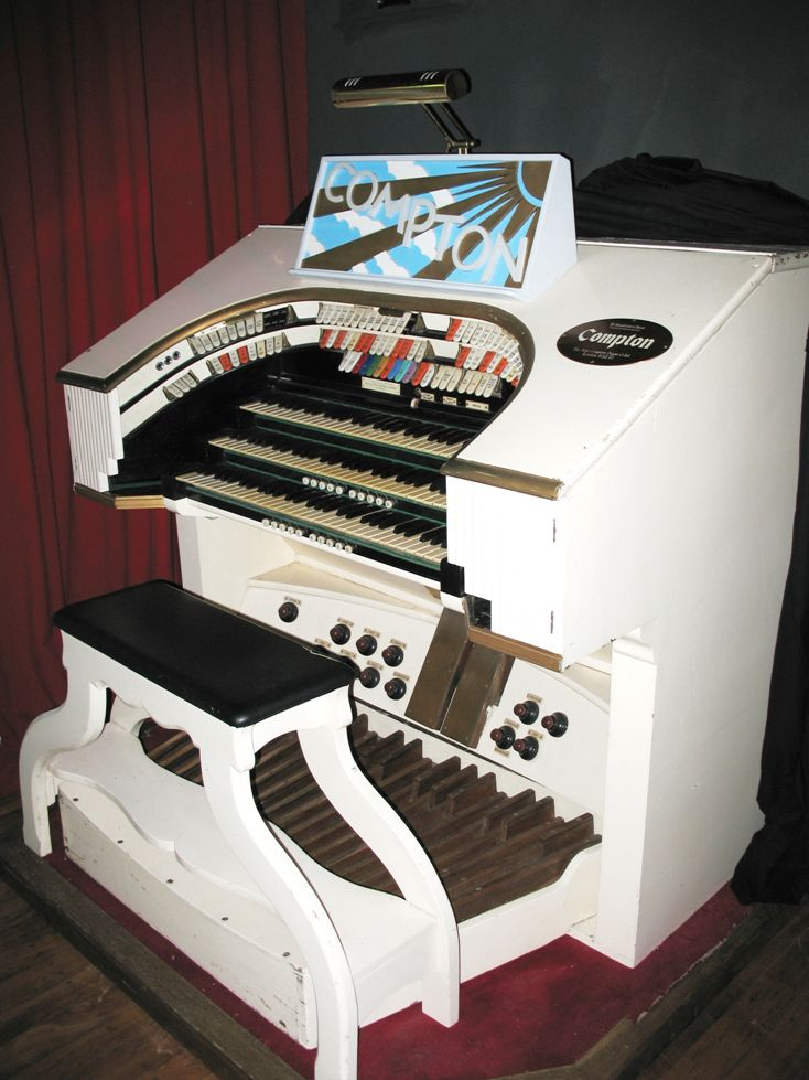 Majestic Theatre, Pomona - Compton 1936 Console, ex Regal Cinema South Shields, England (2009)